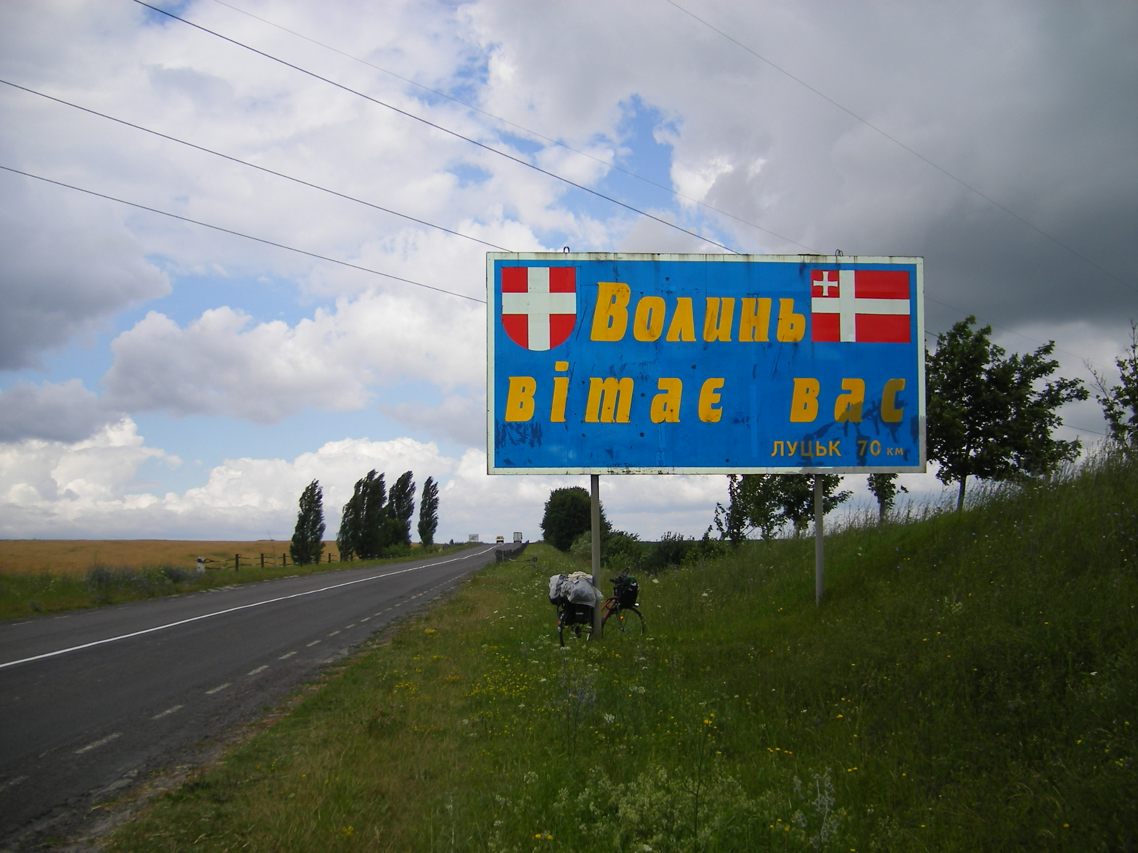 border sign in the Lviv-Lutsk highway